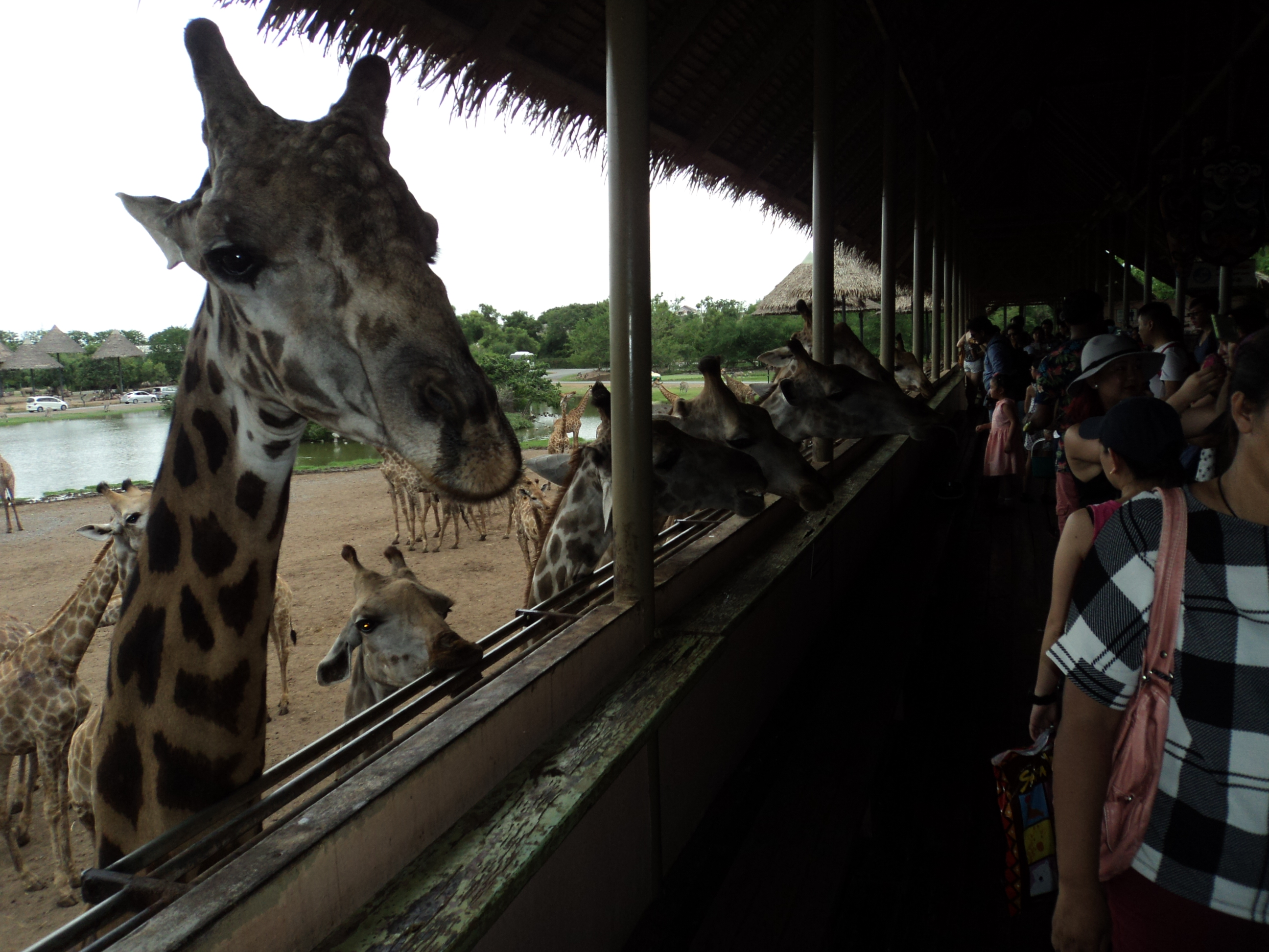 feeding the giraffes in the safari world of bangkok